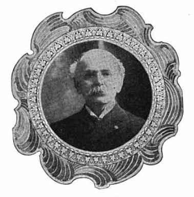 Corporal Harrison Clark, awarded the Medal of Honor for his actions at Gettysburg, Pennsylvania, in the United States Civil War.